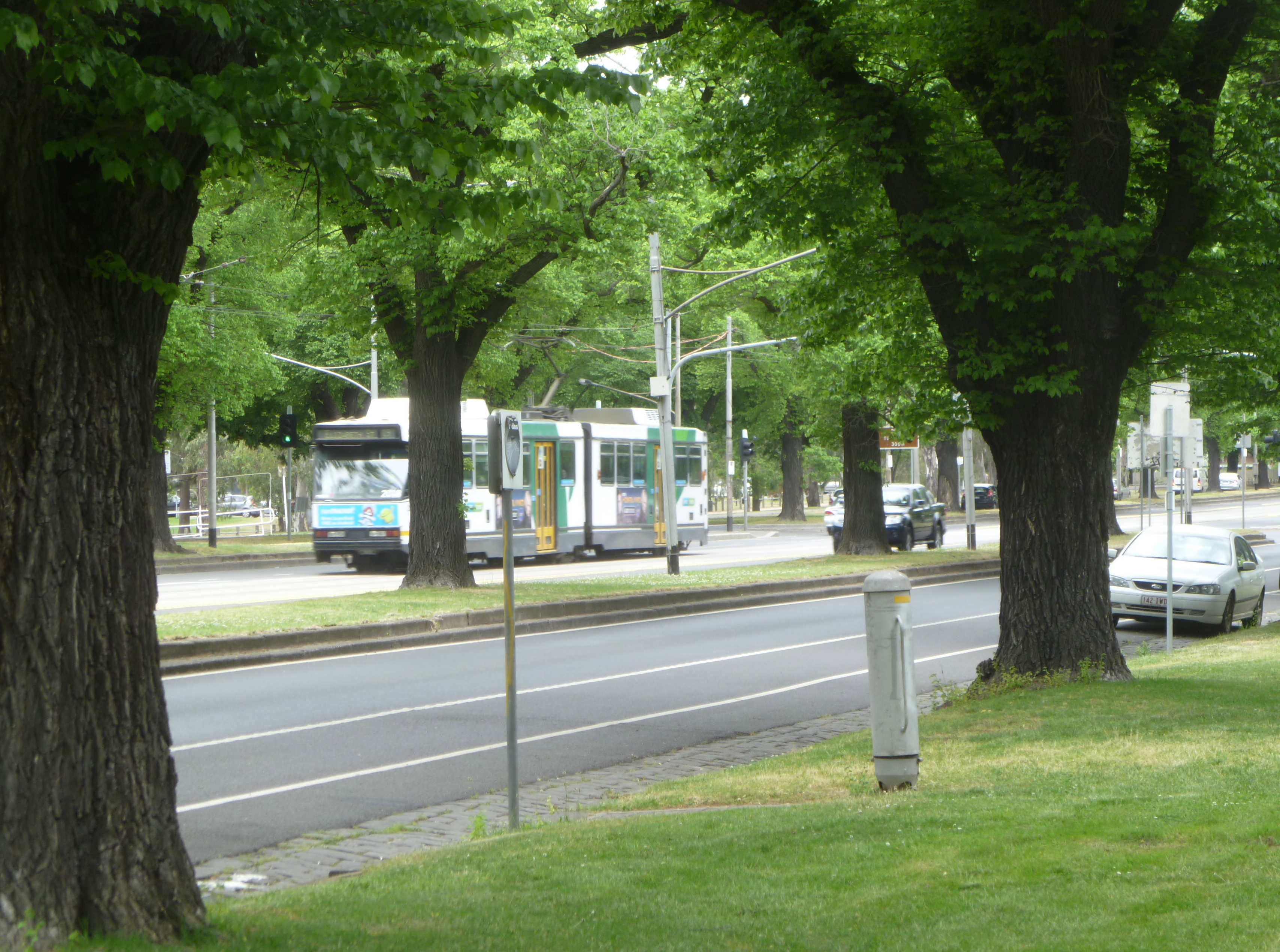 Photograph of tram cars and bike lane, Royal Parade, Melbourne 2012